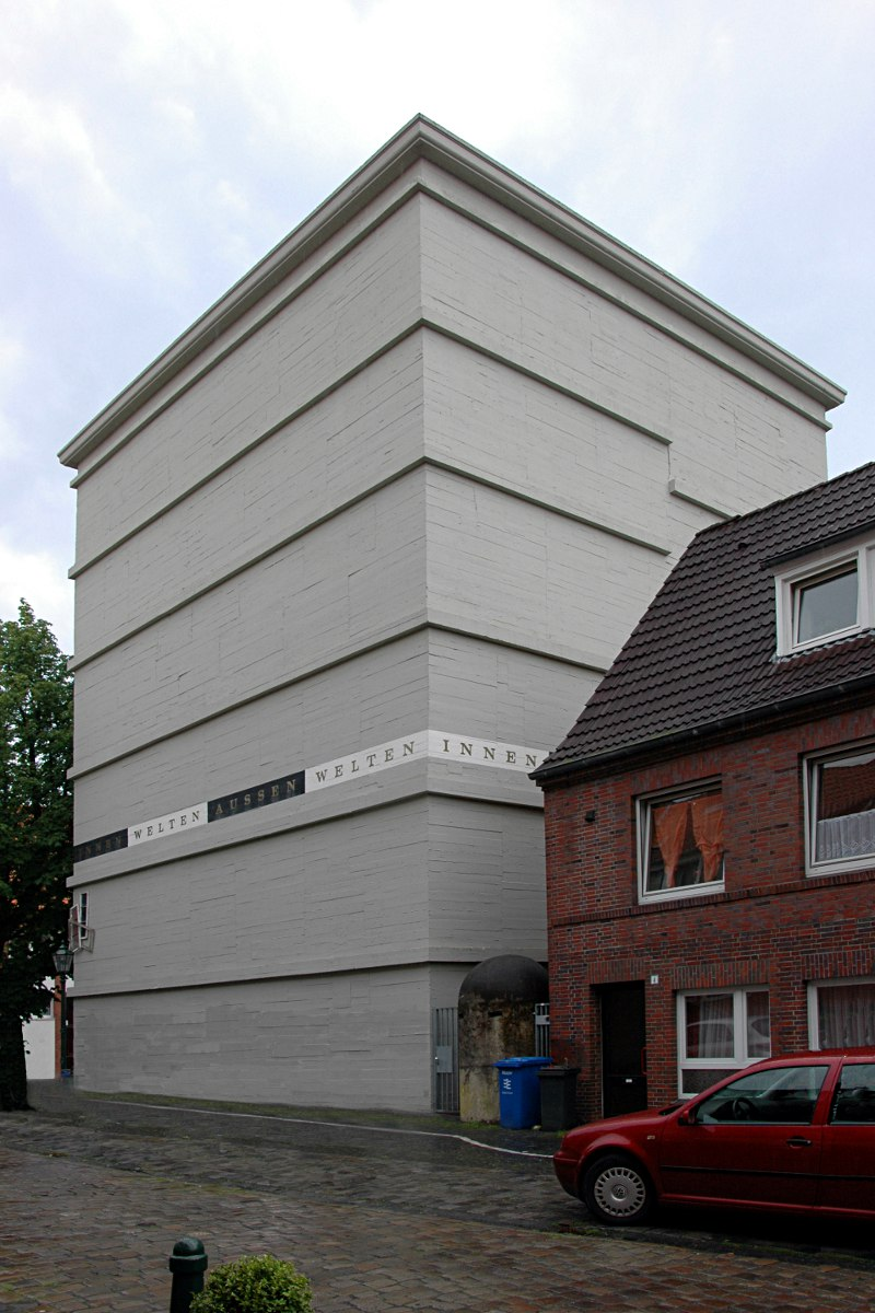 'Bunkermuseum' Emden (formerly shelter at Holzsäger street)